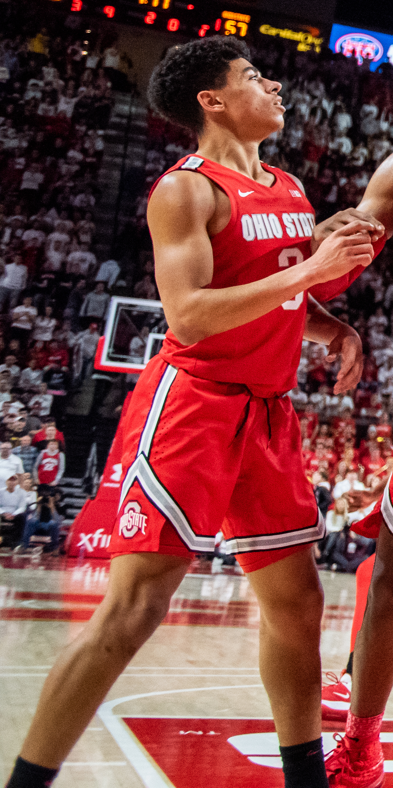 Jalen Smith Dunks for Maryland vs. Ohio State